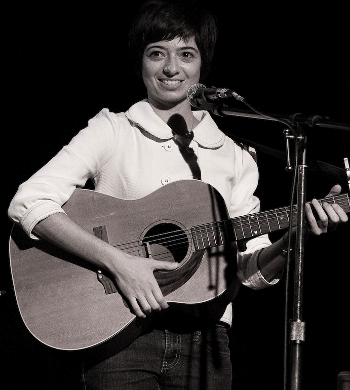 Kate Micucci in 2009 at the Steve Allen theater